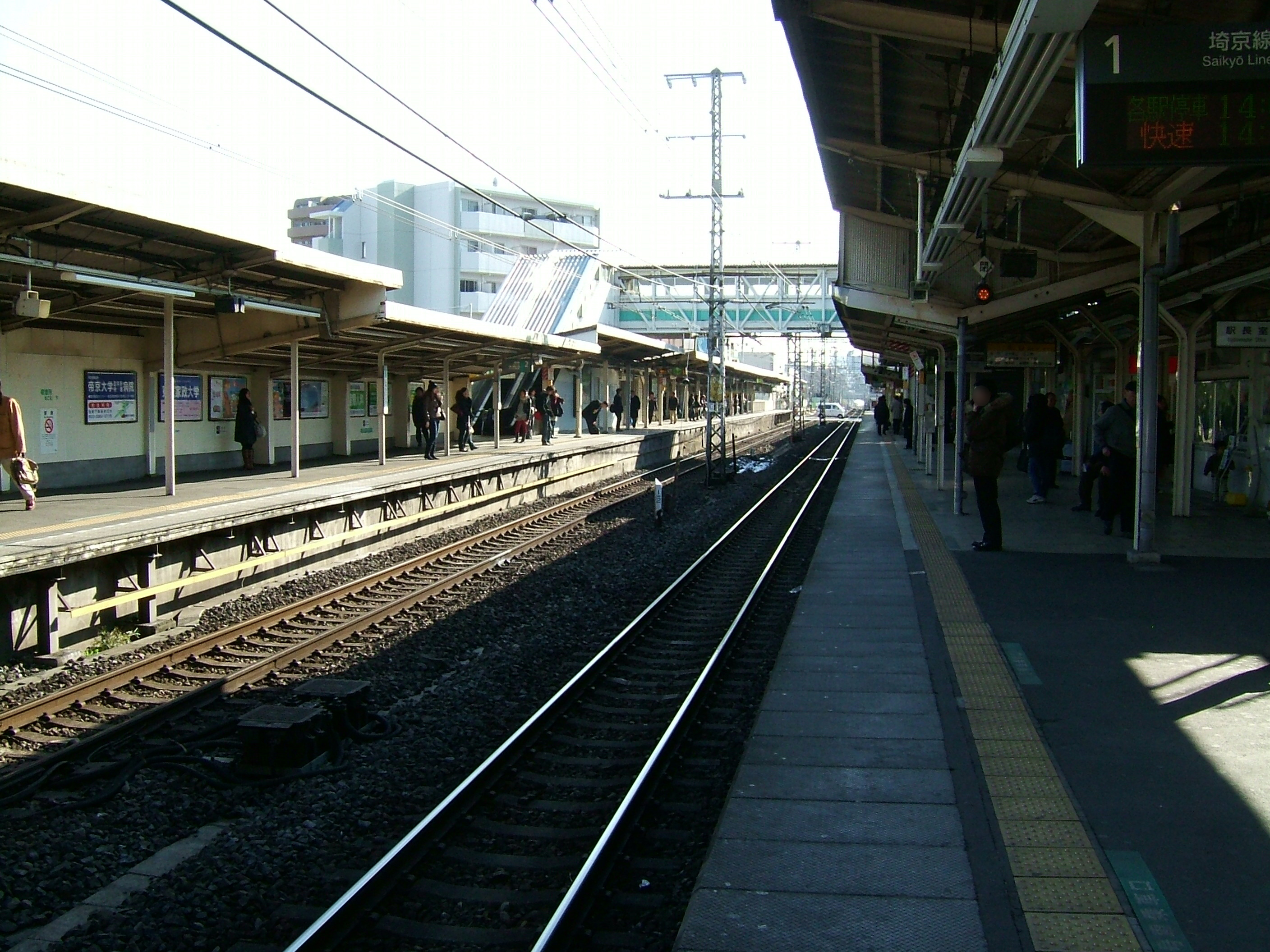 View looking southward from platform 1 at Jūjō Station on the Saikyo Line (Akabane Line) in Tokyo, Japan